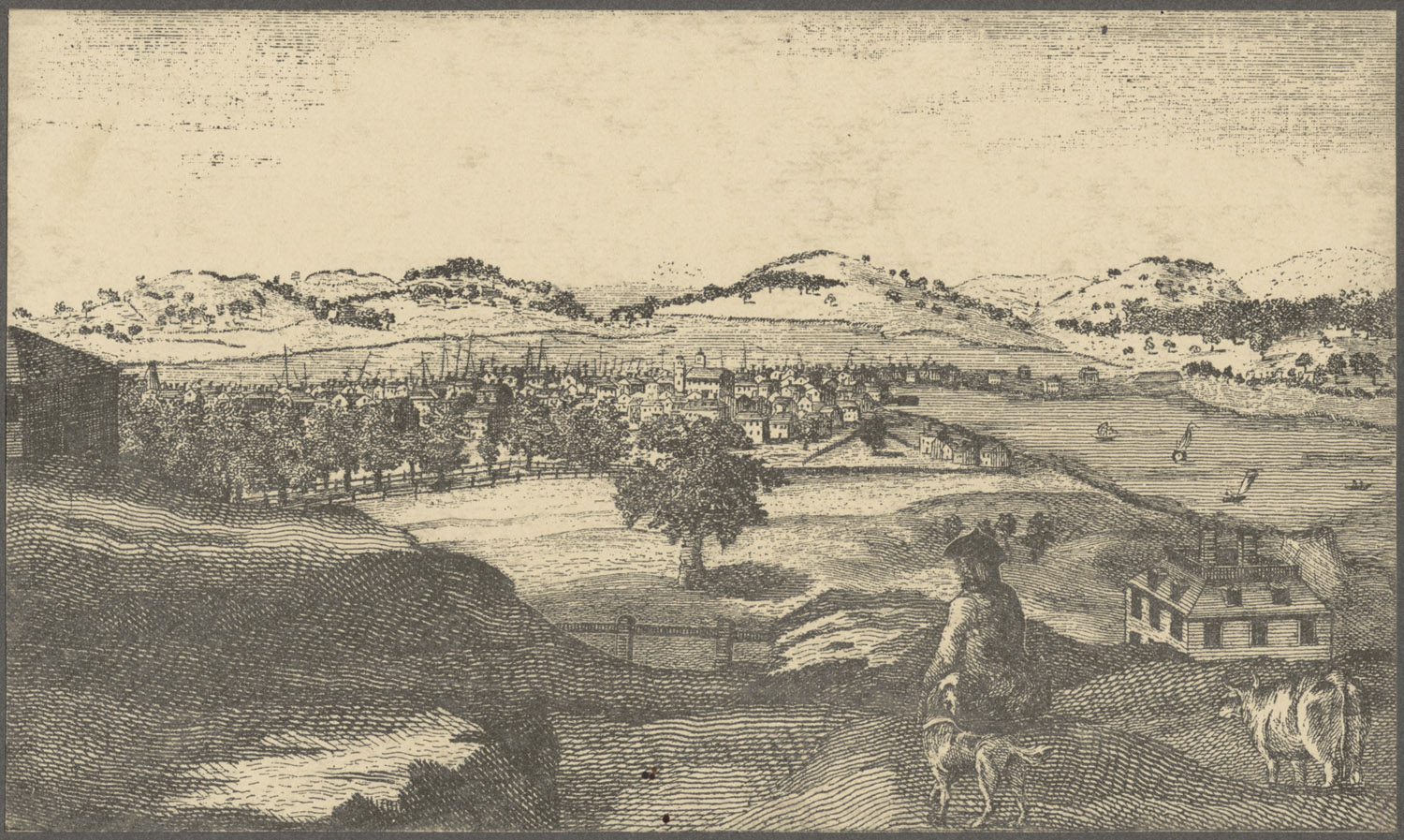 Accession No.: 07_10_000097 Cab. No.: Cab 23.58.1 Title: A South-East View of the City of Boston in North America Engraver: Carwitham, J. (John) Date: 1898 (approximate) Genre: Photographs; Engravings Description: Copy photograph of circa 1723-1730 engraving by Carwitham. BPL Department: Print Department |Source=A South-East View of the City of Boston in North America |Date=2008-05-21 11:14 |Author=BPL